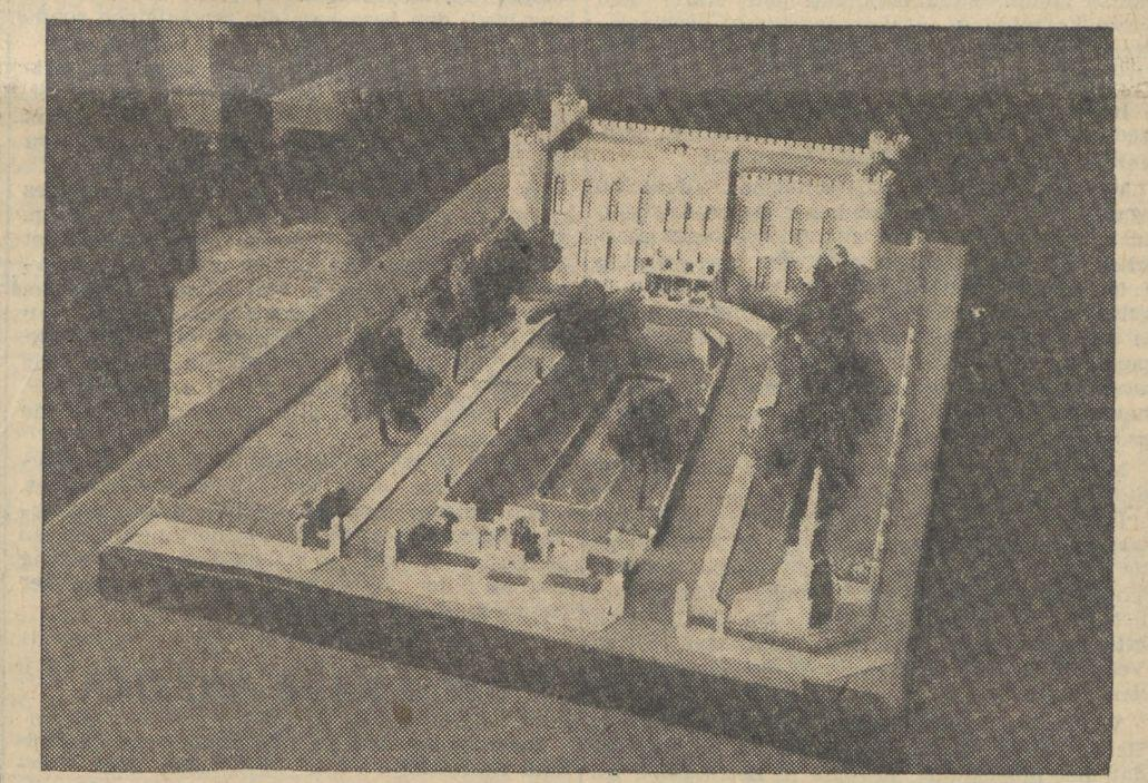 Photo of scale model Paleis-Raadhuis in Tilburg, the Netherlands. From: De Tijd Godsdienstig Staatkundig Dagblad; 2 June 1936.